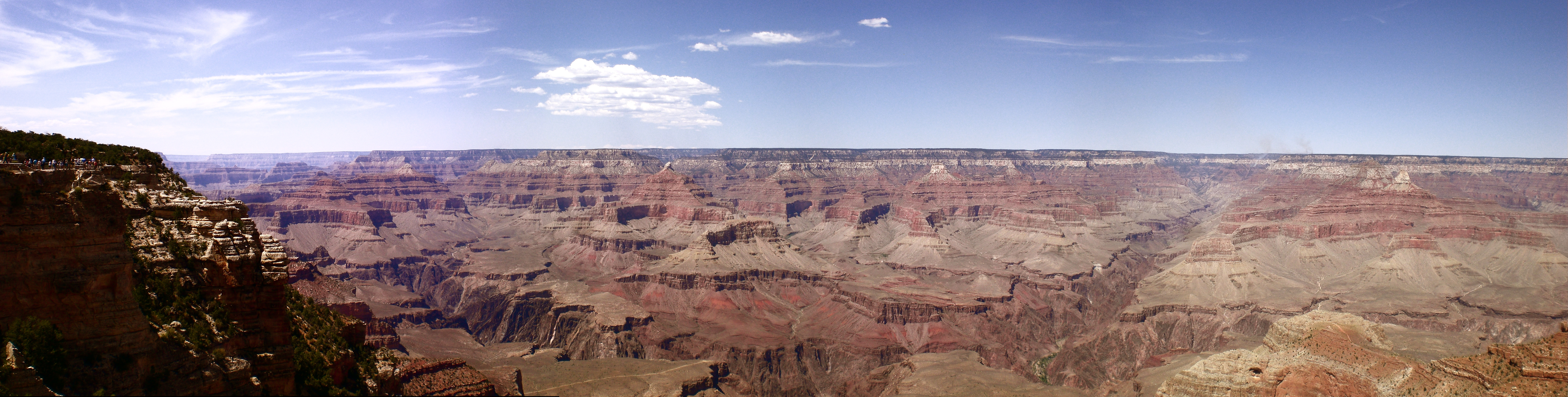 Pano view of grand canyon